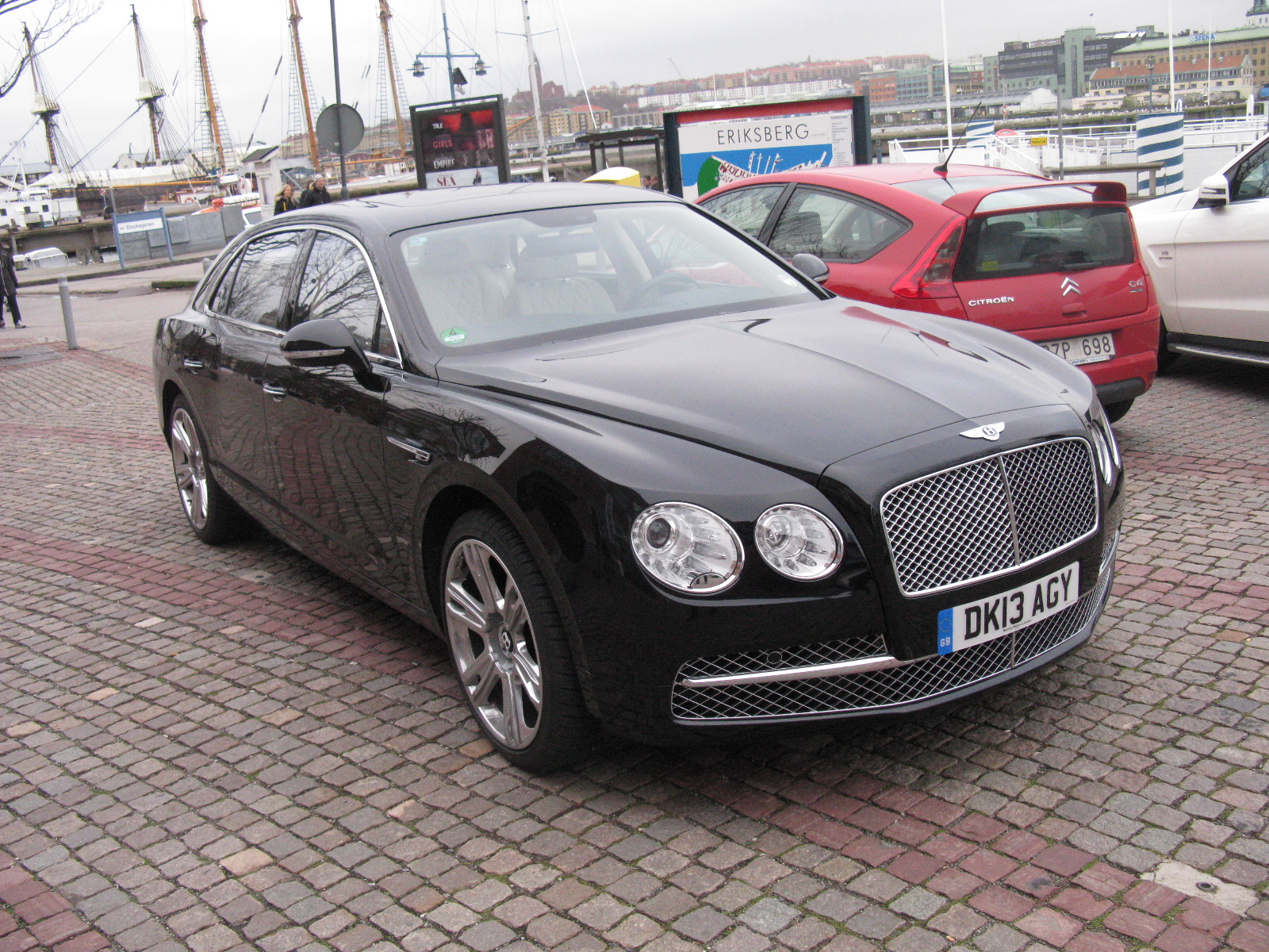 Bentley Flying Spur